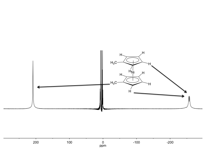 1H NMR spectrum of 1,1'-dimethylnickelocene showing the effects of contact shift